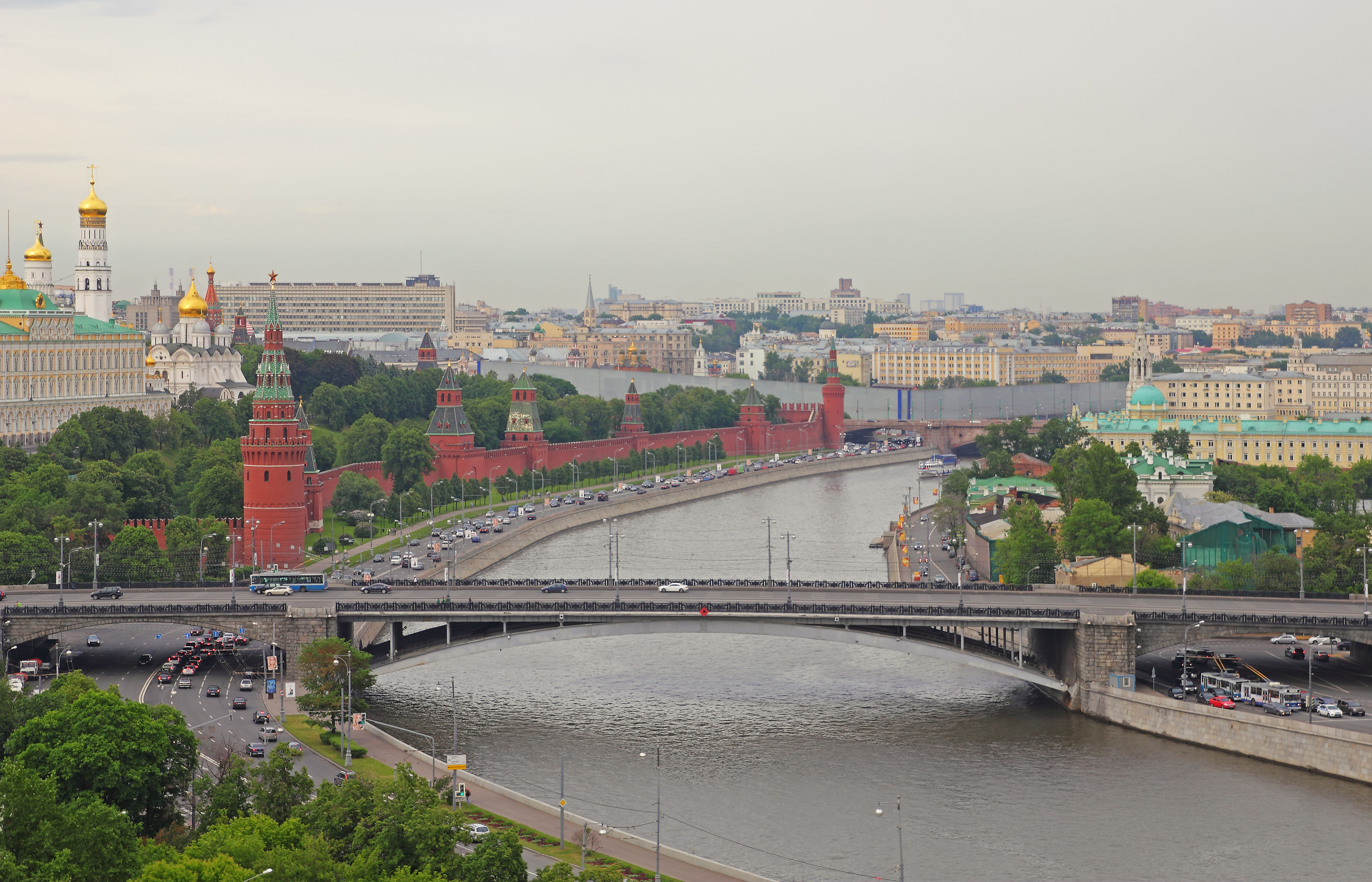 View from one of the four visitor's viewing platforms of the Cathedral of Christ the Saviour in Moscow.